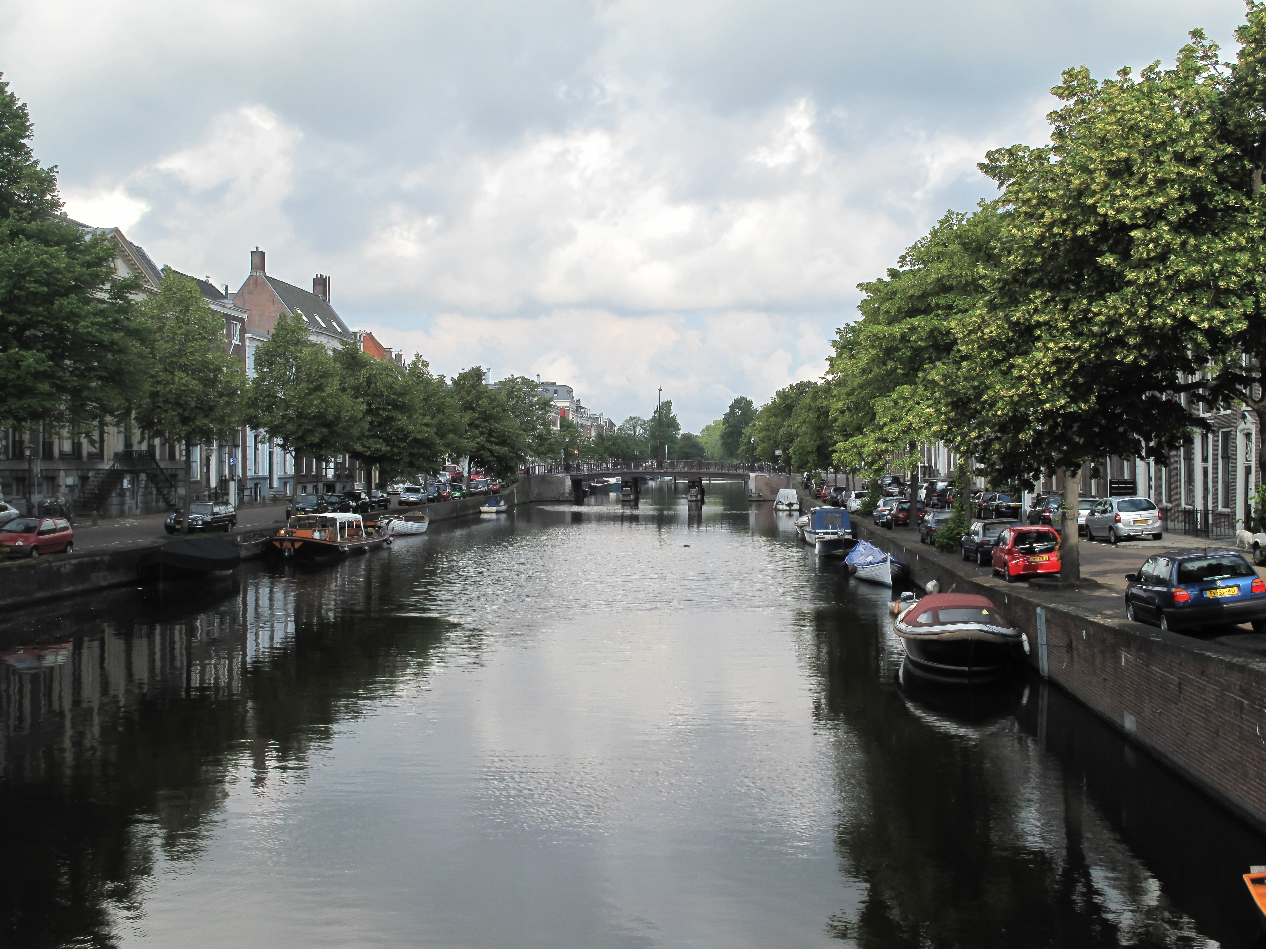 Haarlem, canal: de Nieuwe Gracht